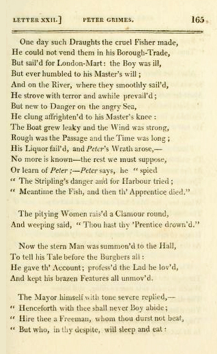 Page scanned from 1812 edition of George Crabbe's poem The Borough, published by Hatchards Piccadilly.